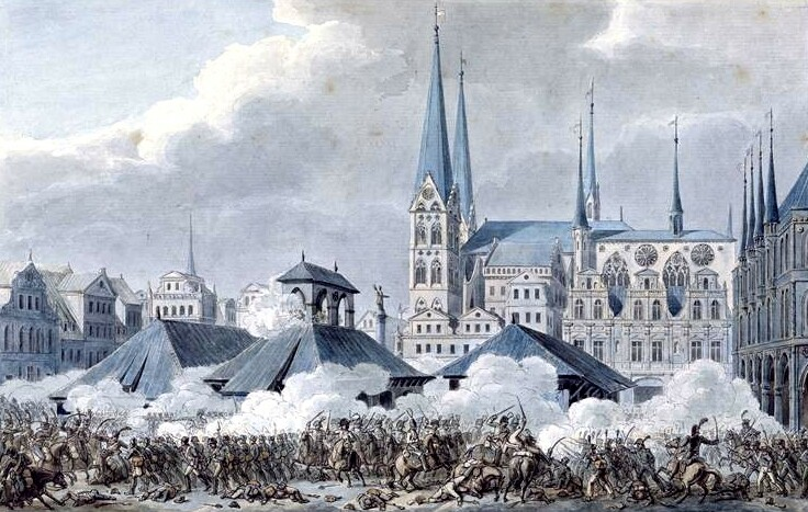 The Battle of Lübeck, 7 November 1806. Prussian and French troops fighting on Market Square before the Town Hall.